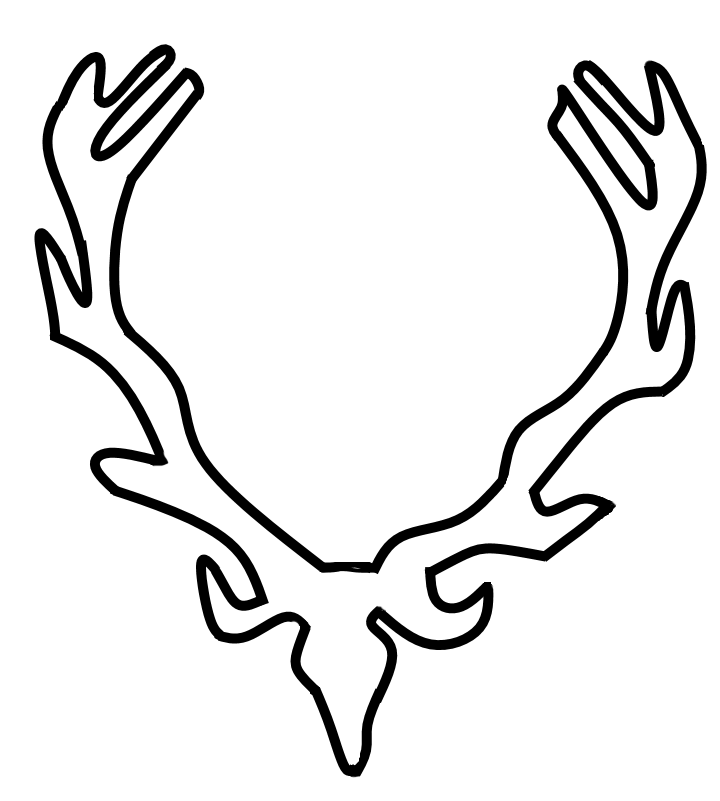 118. Jaeger Division, German Army, World War II